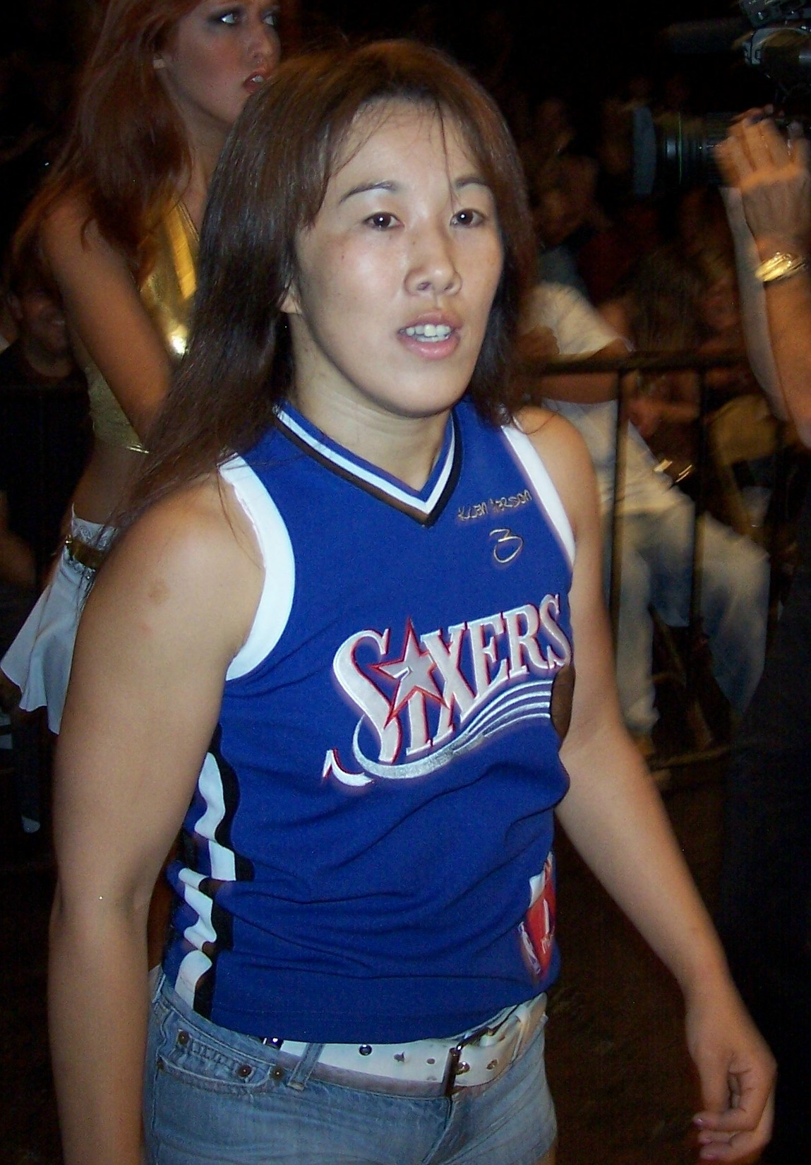 Sumie Sakai at a Women's Extreme Wrestling event in 2006.